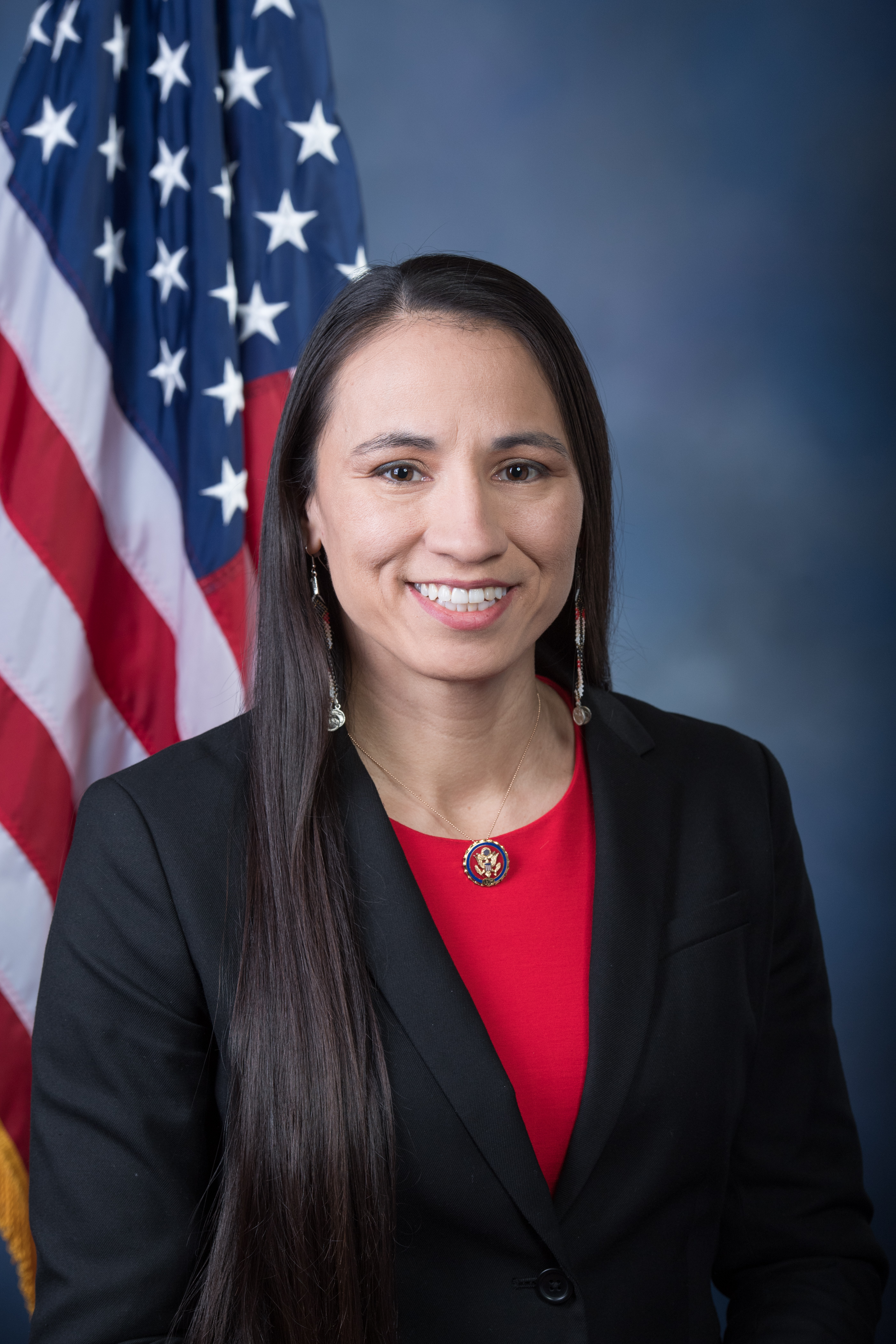 Official portrait of Congresswoman Sharice Davids (D-KS03)